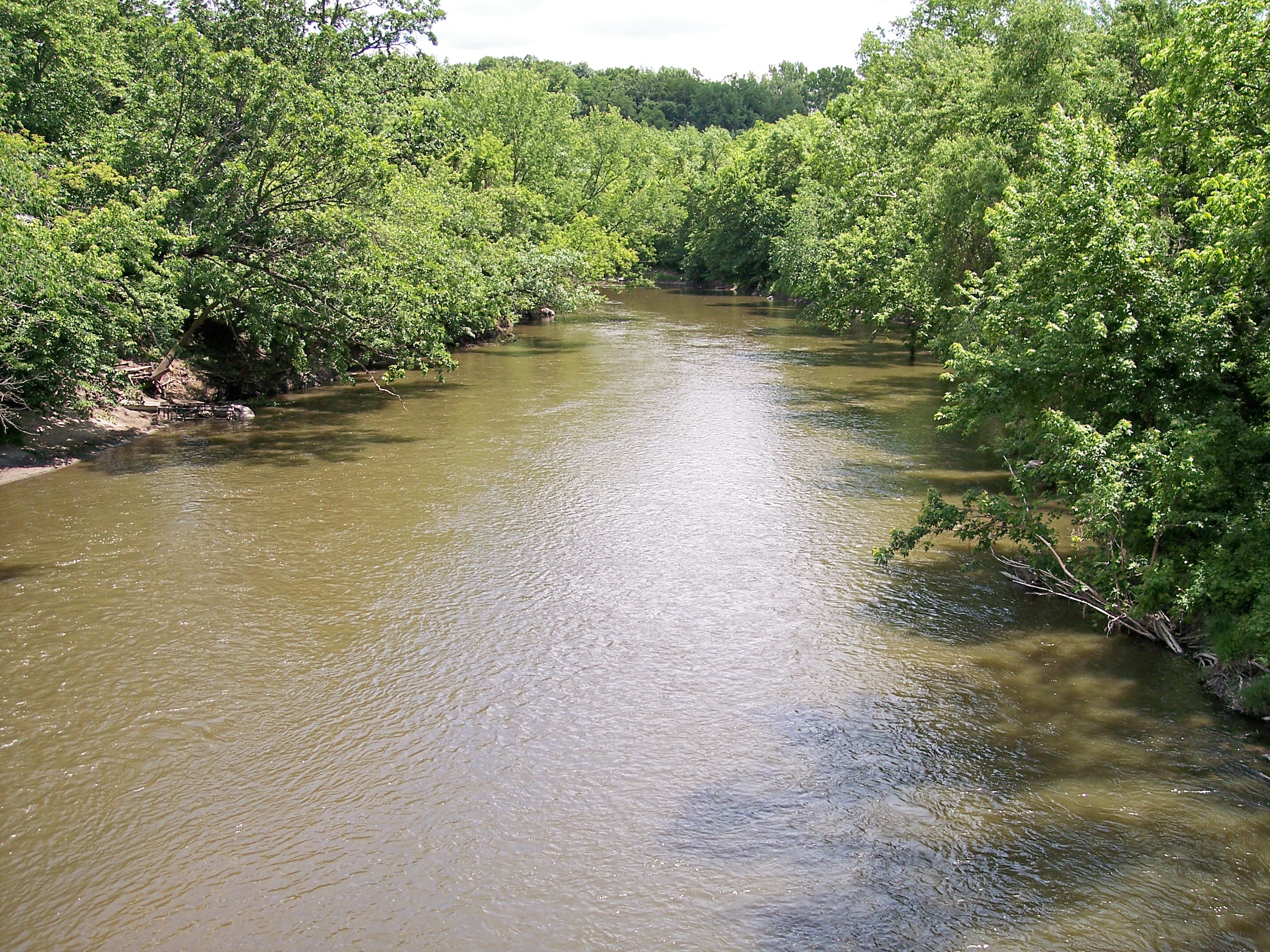 The Watonwan River as viewed downstream from Washington Street (County Road 38) in the community of Garden City in Garden City Township, Minnesota